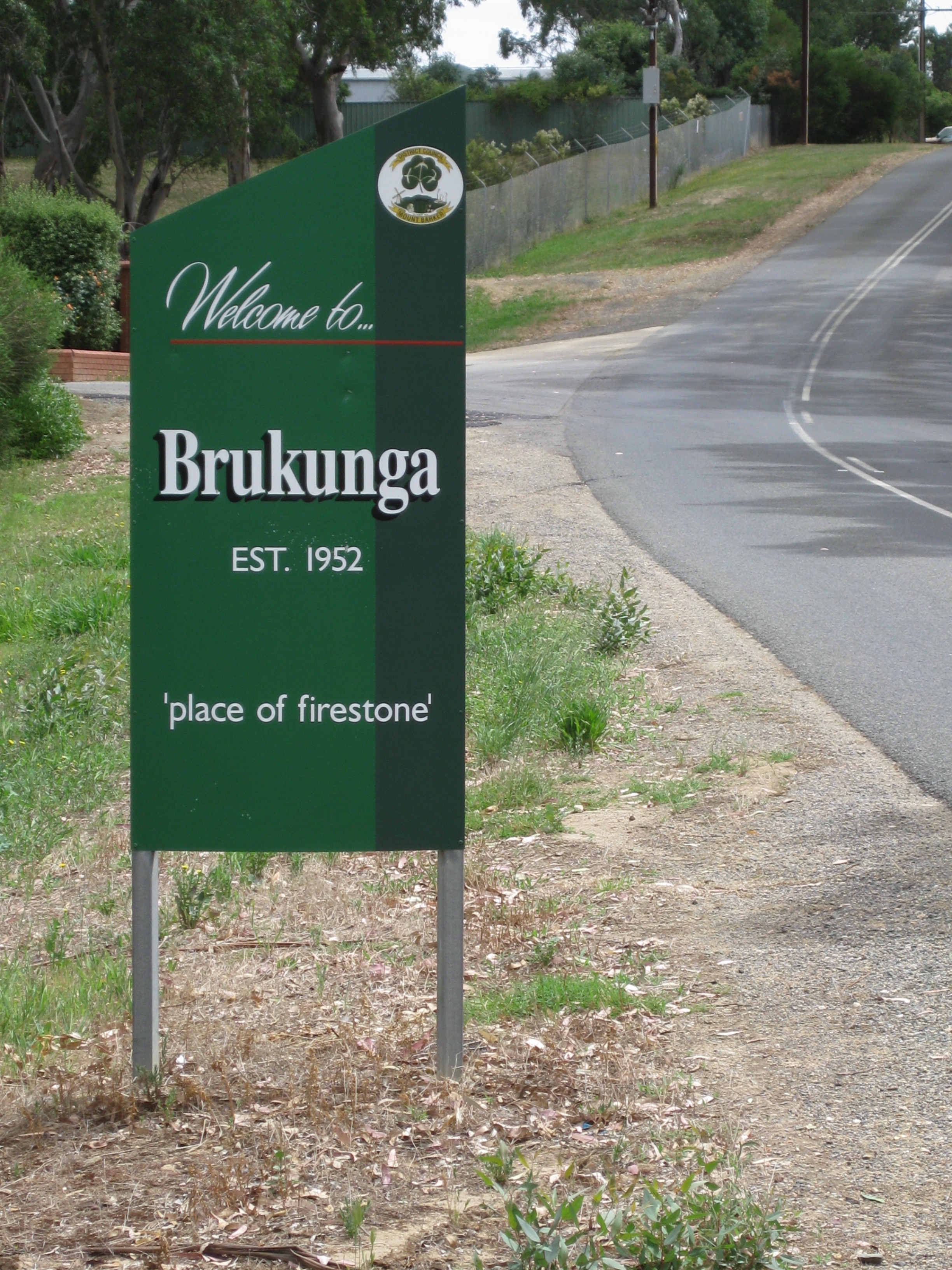 Entrance sign to the Adelaide Hills town of Brukunga.